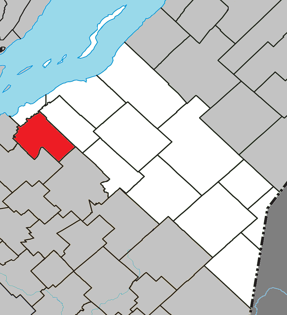 Location of Saint-François-de-la-Rivière-du-Sud, Quebec within Montmagny Regional County Municipality.